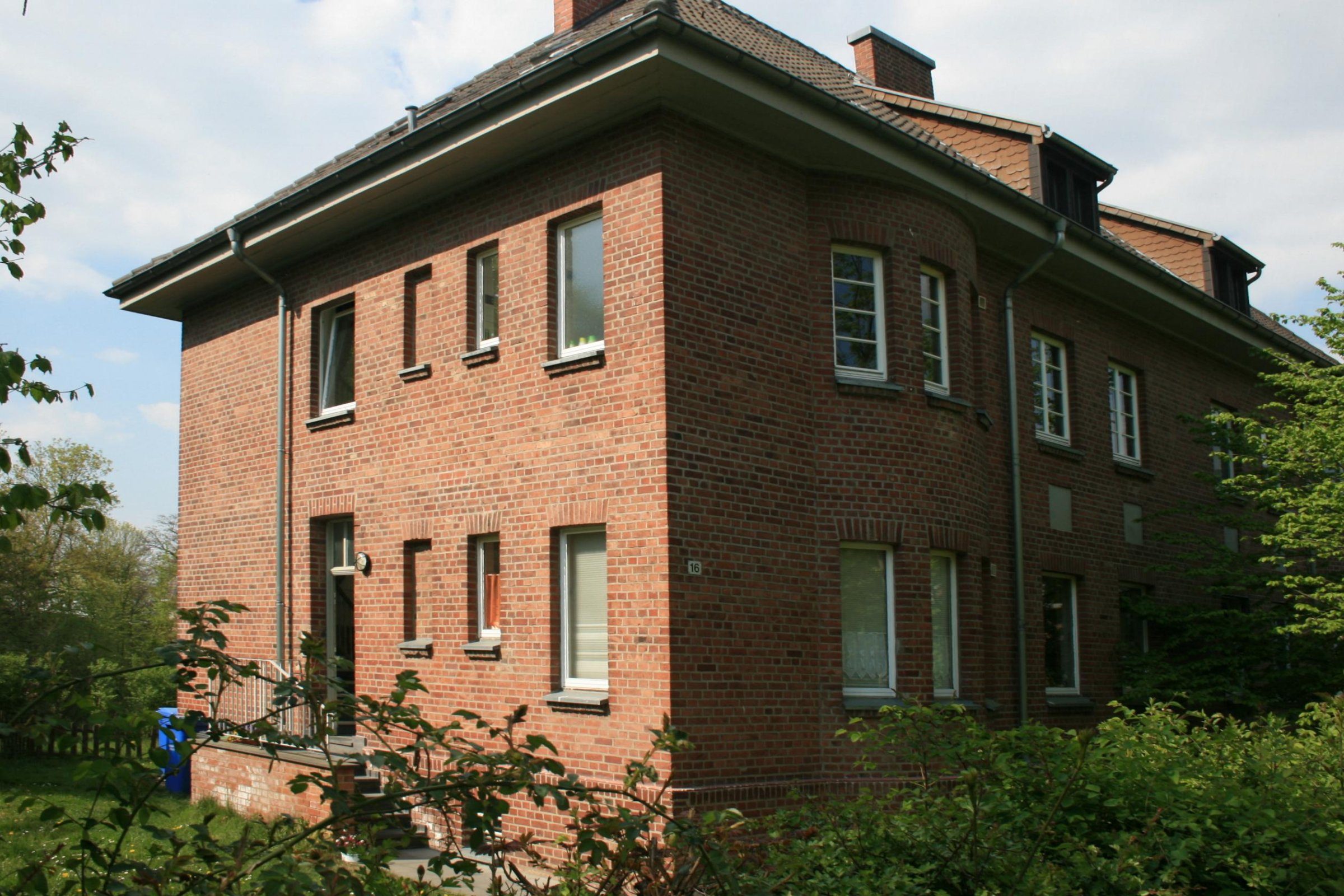 Cultural heritage monument No. 1/001u in Düren